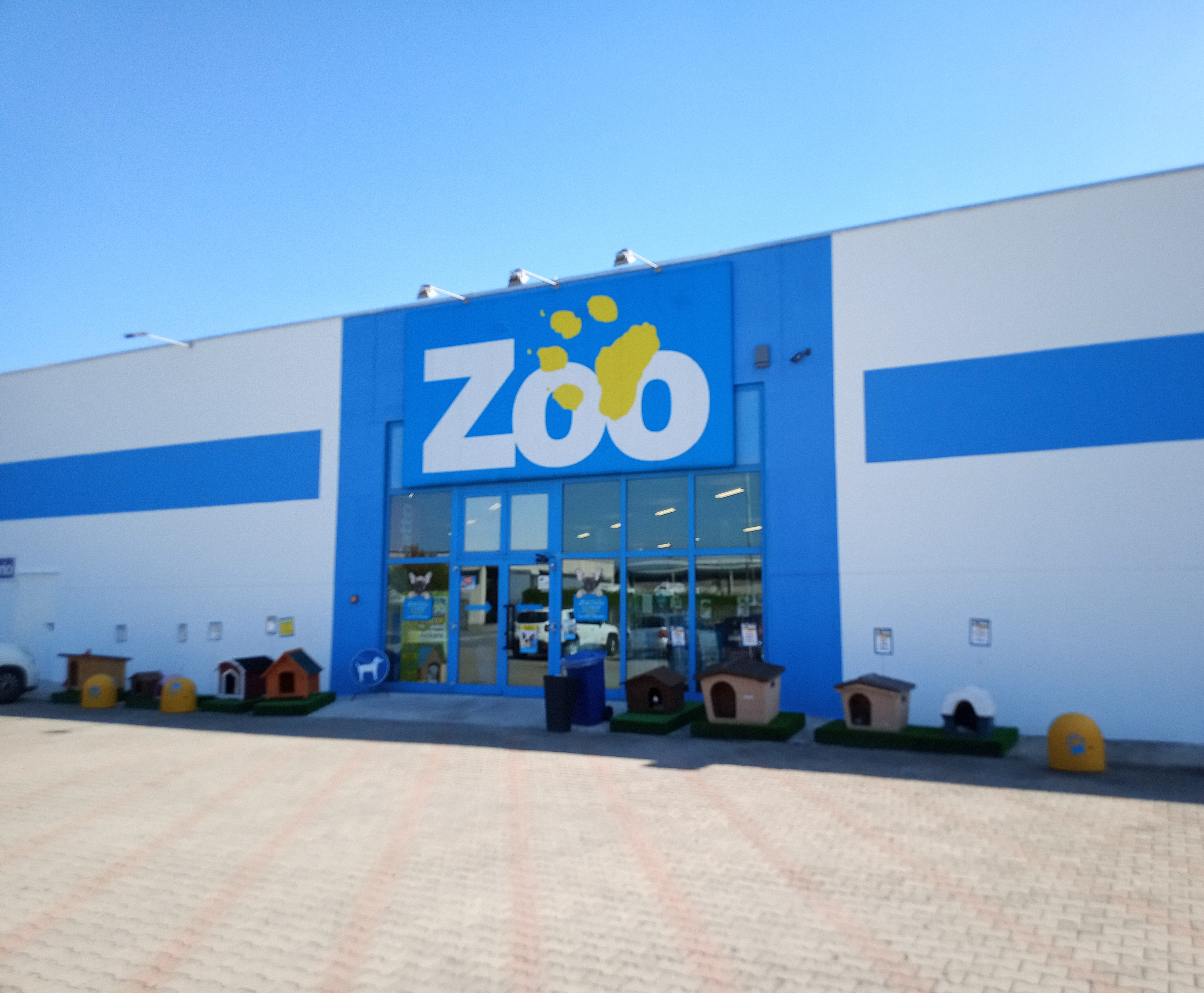 Pet shop in Italy